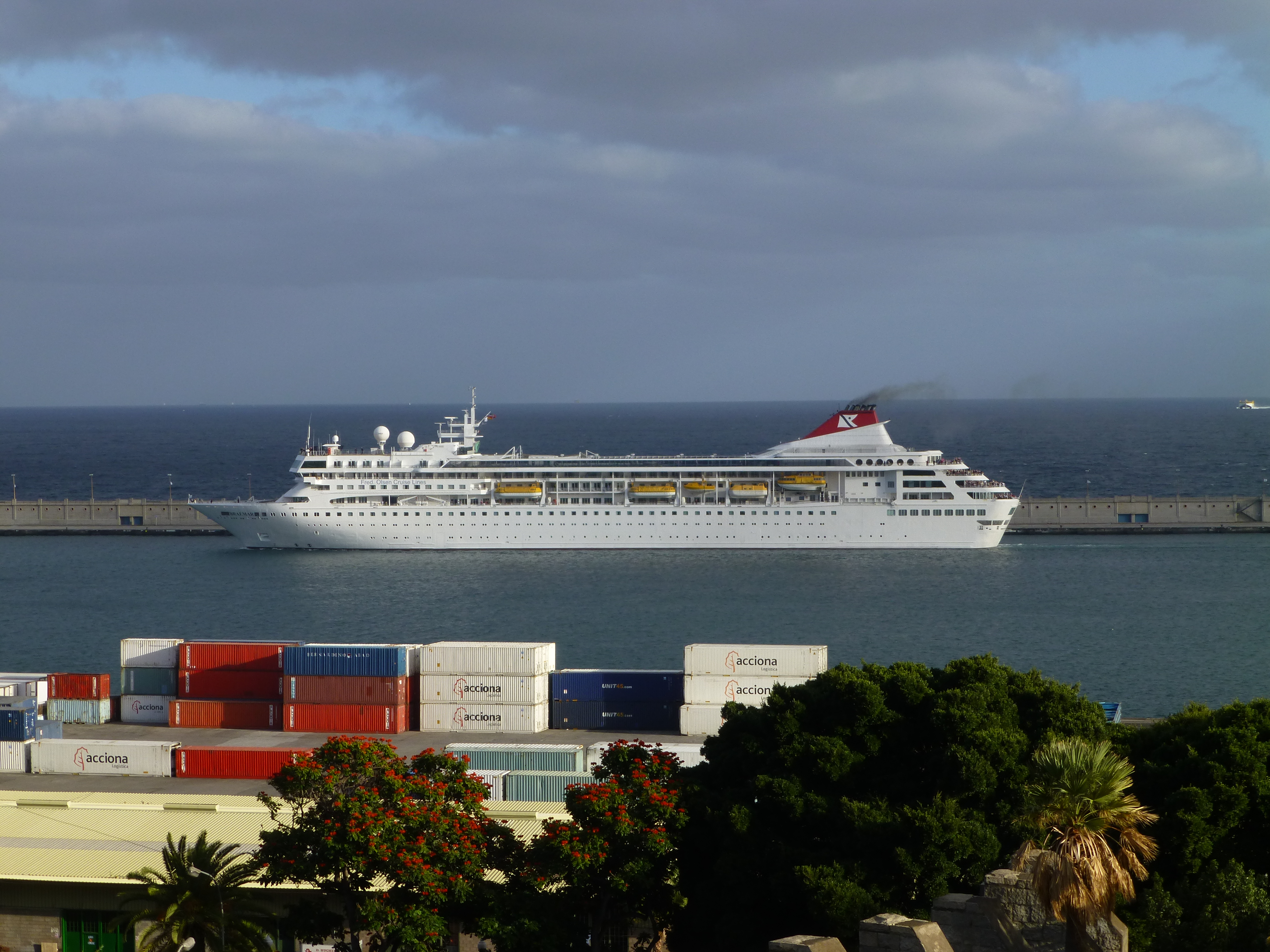 MS Braemar, is a cruise ship, currently operating with Fred. Olsen Cruise Lines. Picture taken at the port of Santa Cruz de Tenerife, Canary Islands, Spain.